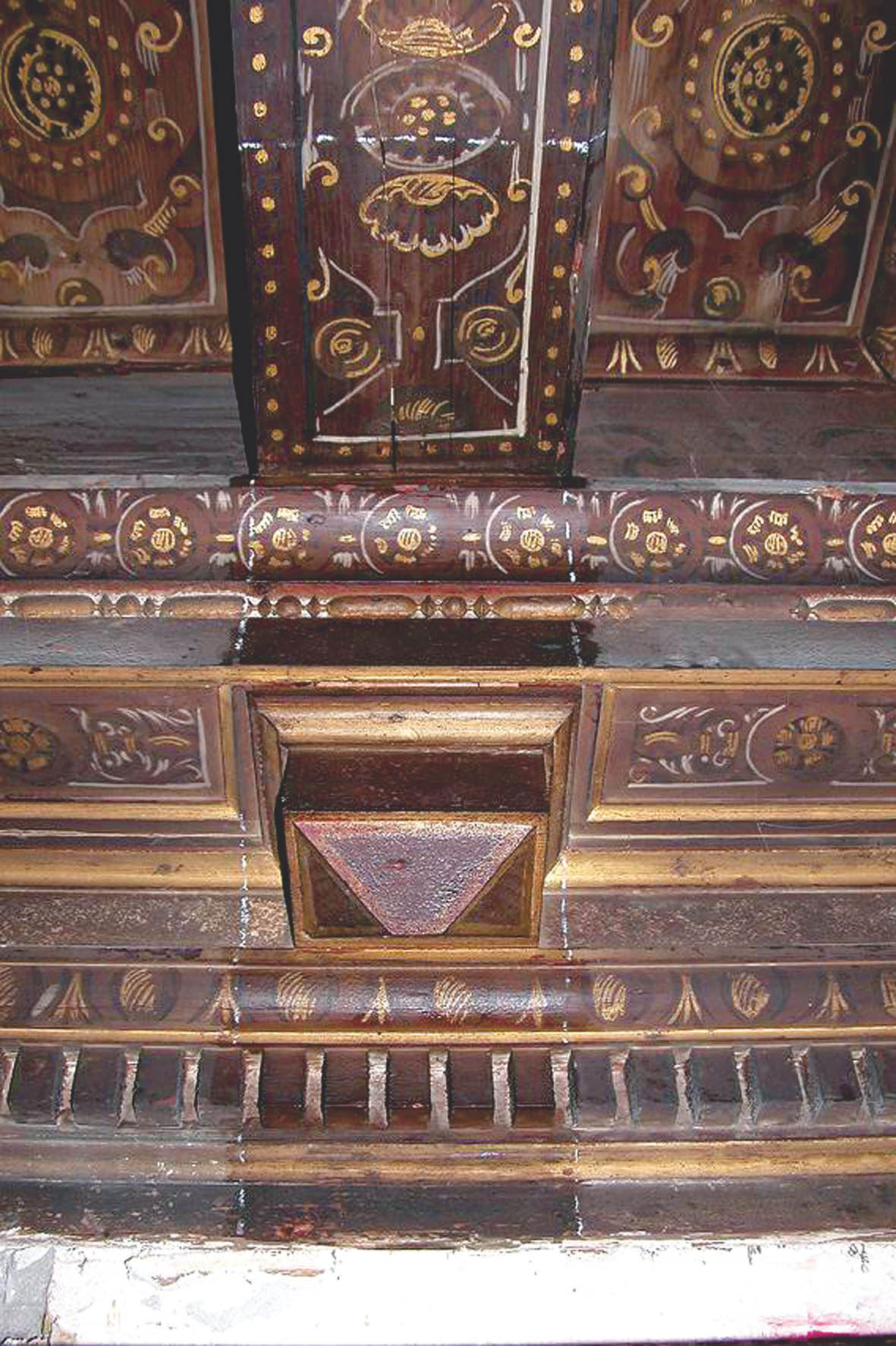 Ca' Fosacri: decorated roof